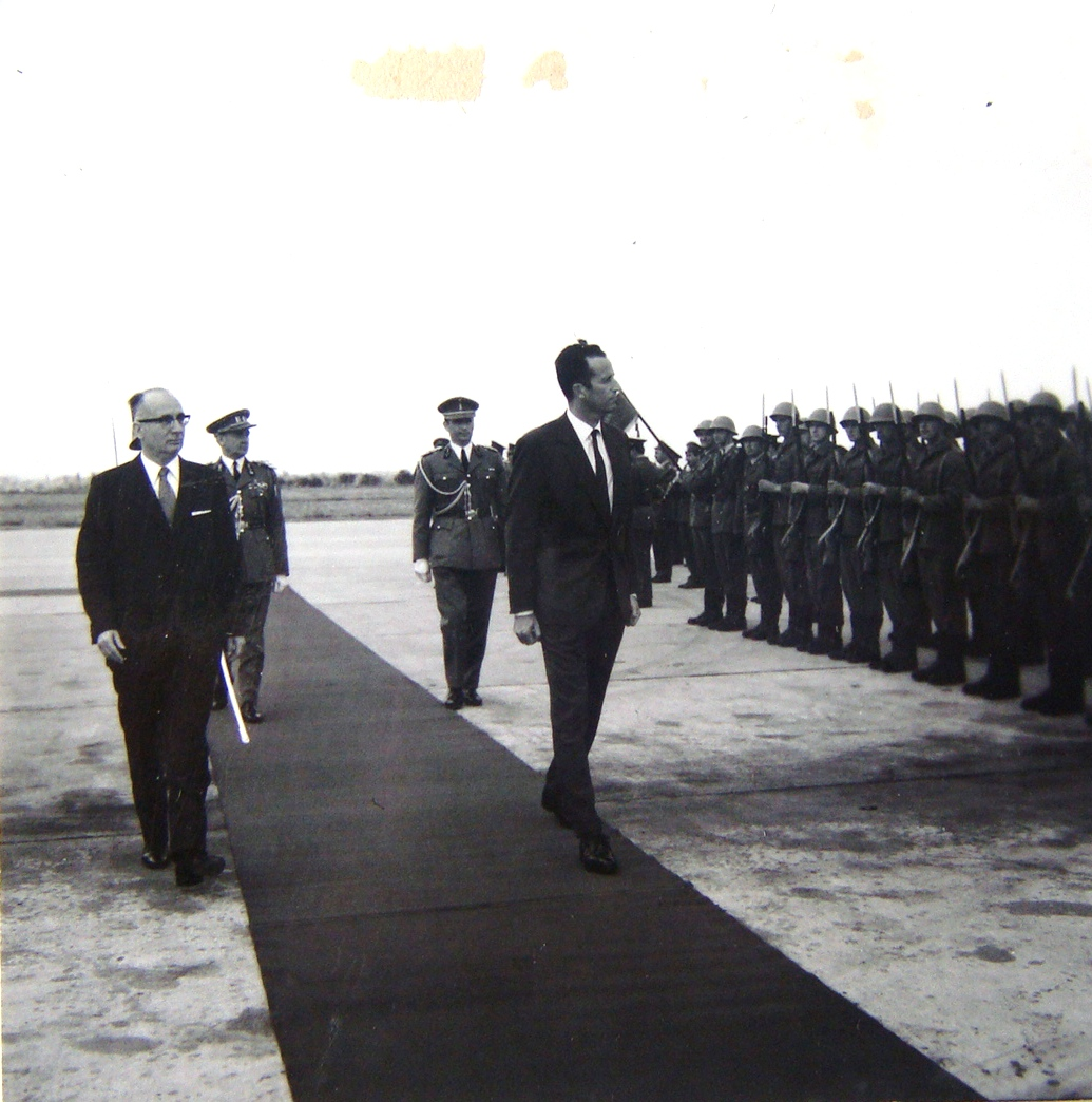 King of Belgium, Baudouin and Nikola Minchev review an honorary battalion, July 20, 1973 This media file is produced by Wikipedian in Residence in Category:Wikipedian in Residence at DARM in 2016.